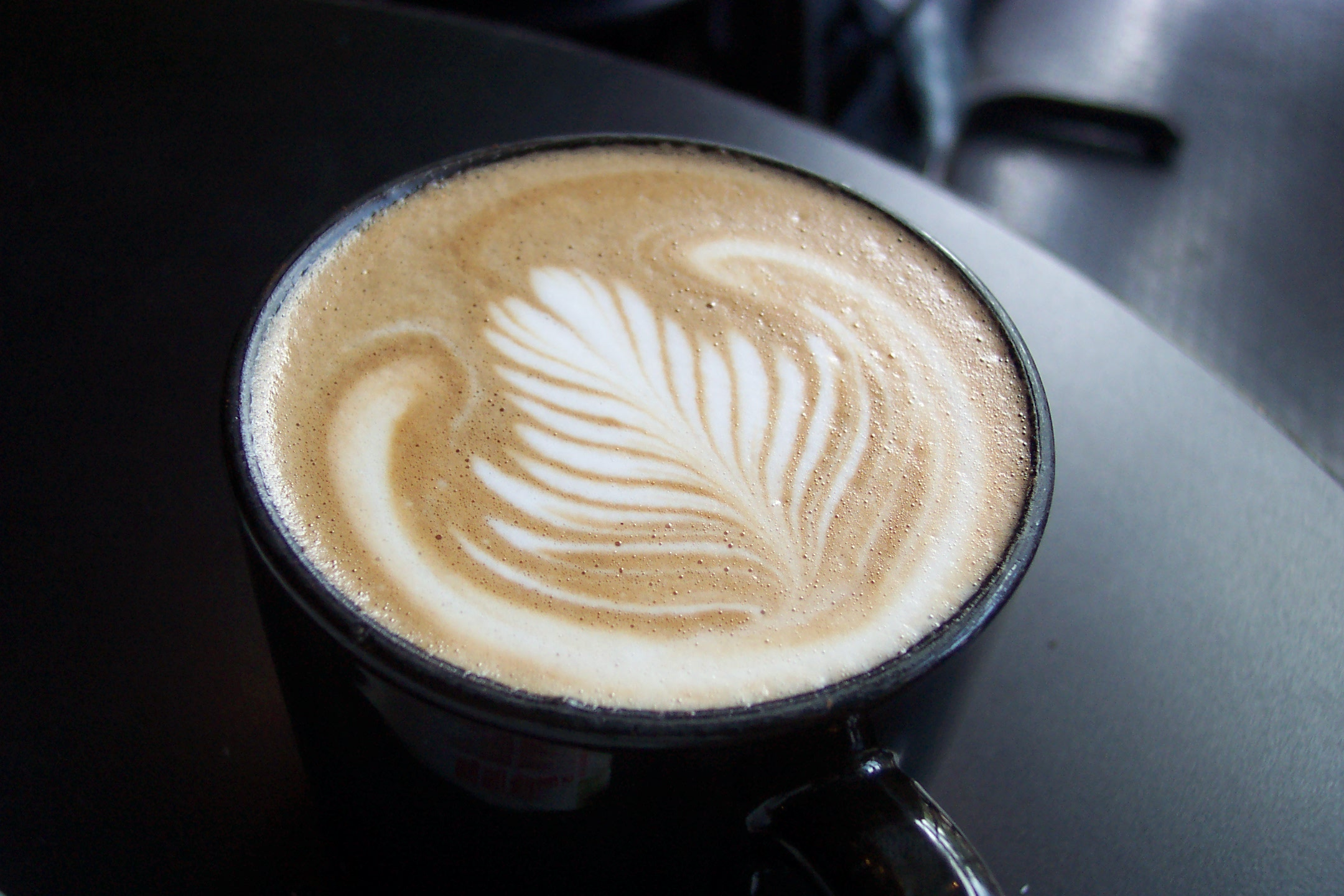 This is a mocca latte served with a latte-made leaf at the Diesel Cafe at Davids Square, Cambridge, MA.